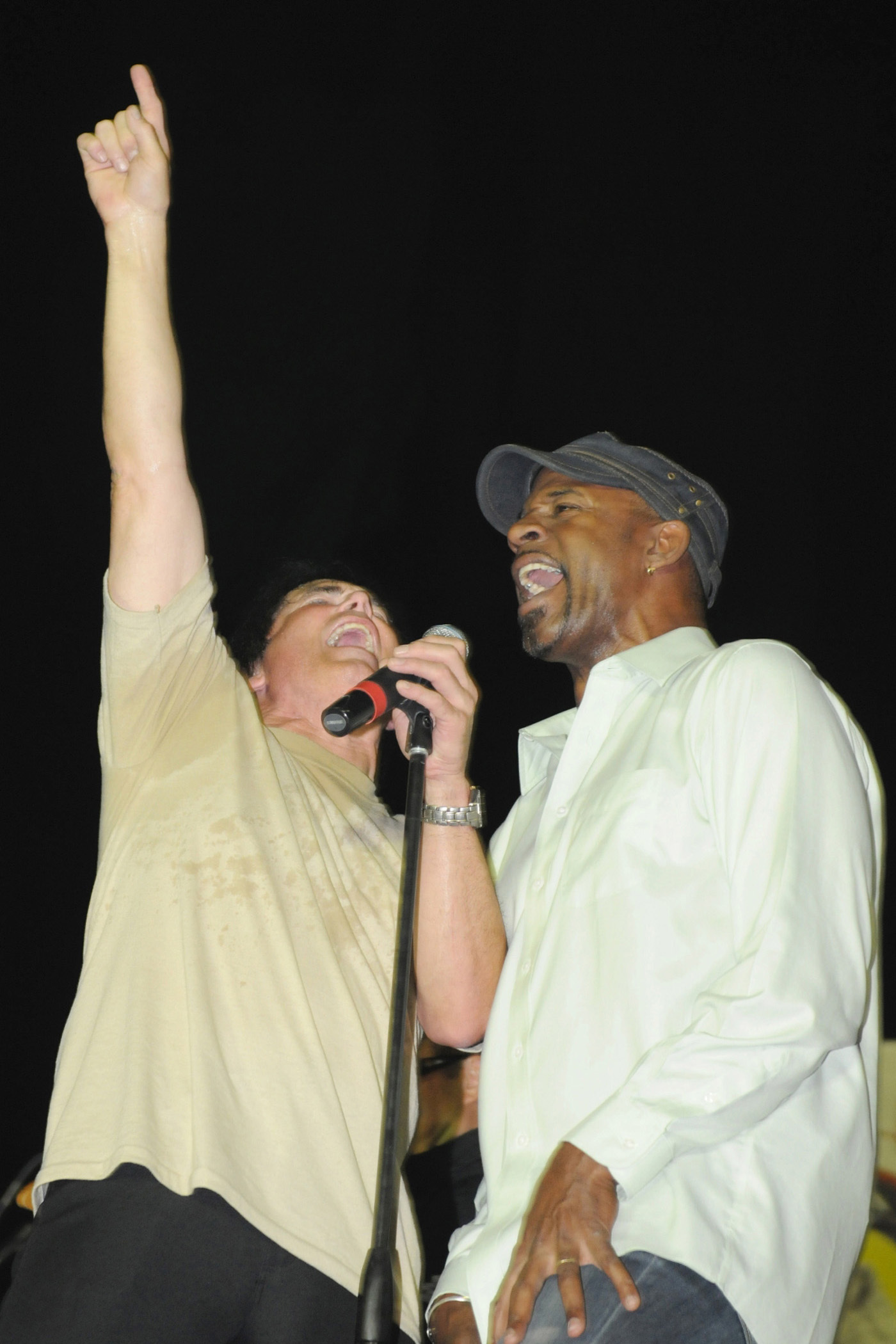 From left, Jimi Jamison, former lead singer of the band Survivor, and Skip Martin, a former lead singer of the band Kool and the Gang, perform “Eye of the Tiger” together at a Morale, Welfare and Recreation concert at Camp Liberty, Iraq, July 5. This was the last stop for the Rock and Pop Masters Tour, which had also visited service members in Kuwait.